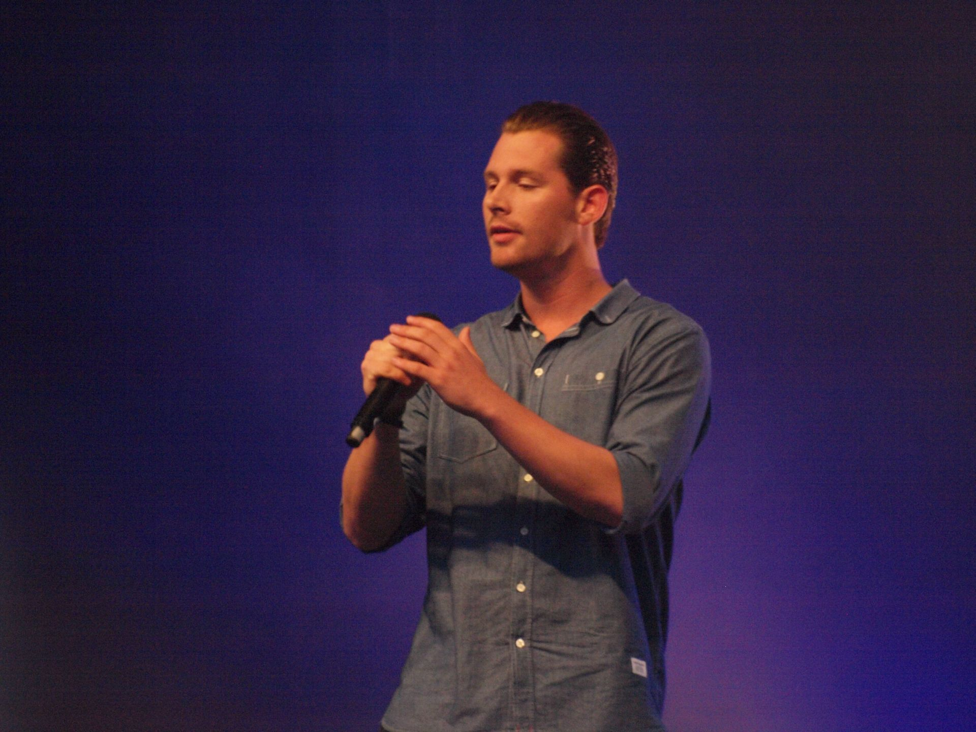 Rasmus Seebach